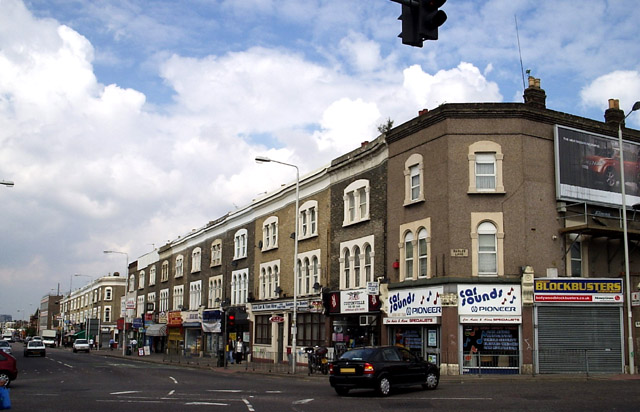 Goodmayes High Road This was taken at the Junction of Goodmayes High Road(A118) with Barley Lane to the right and Goodmayes Road to the left.